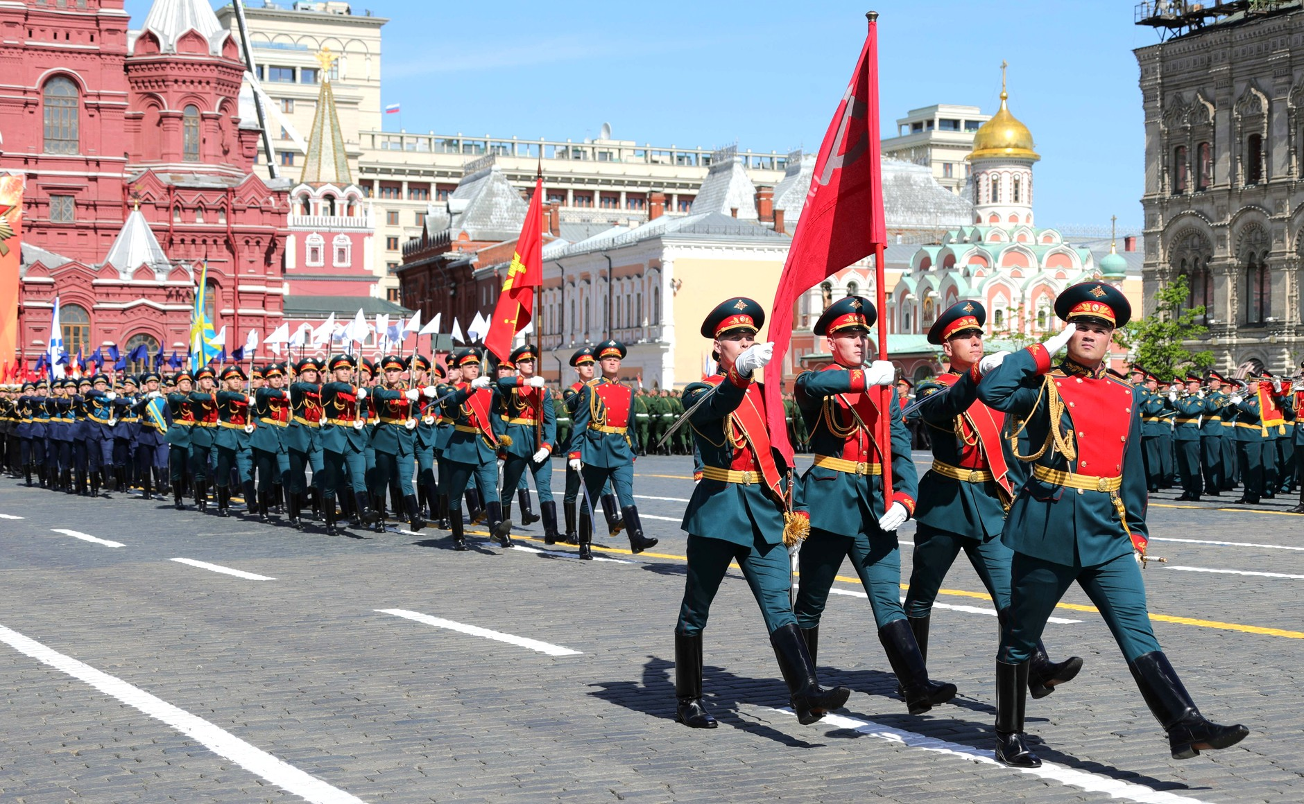 2018 Moscow Victory Day Parade